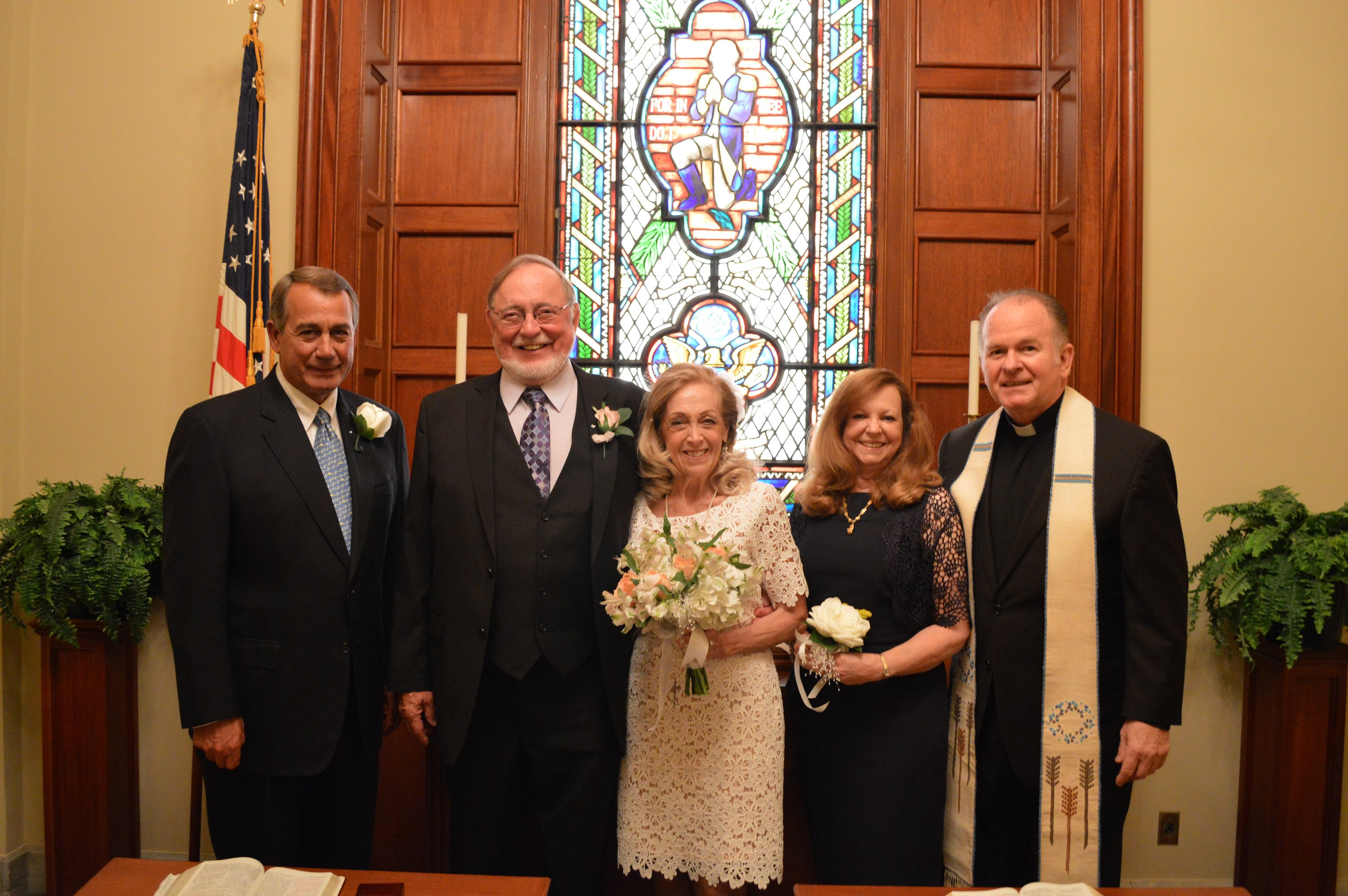 I've heard J.Boehner tell 'knife story" many times, once as my Best Man @ my wedding. Knife gets a little bigger & a little closer each time